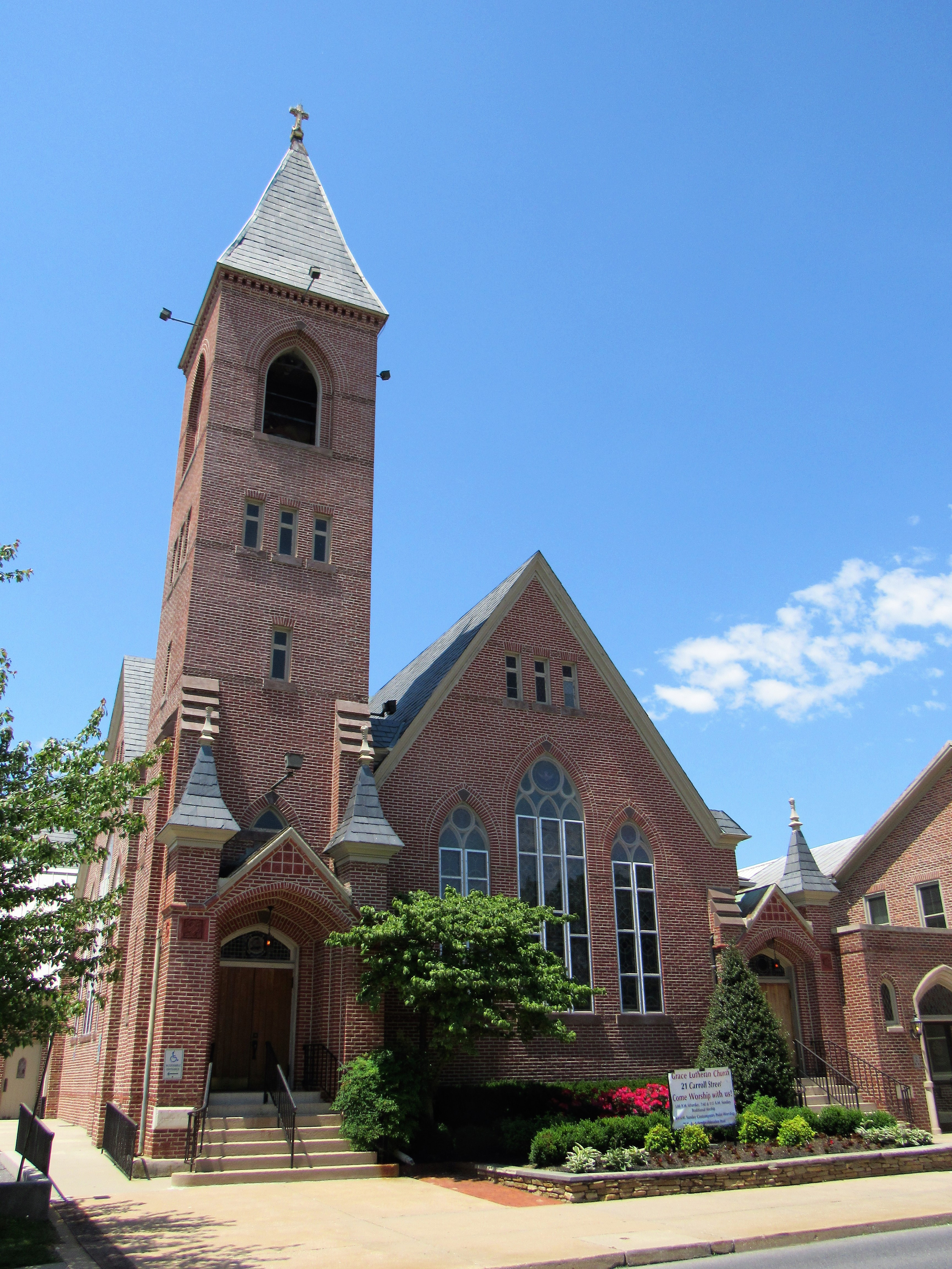 Grace Lutheran Church (ELCA) in Westminster, Maryland.